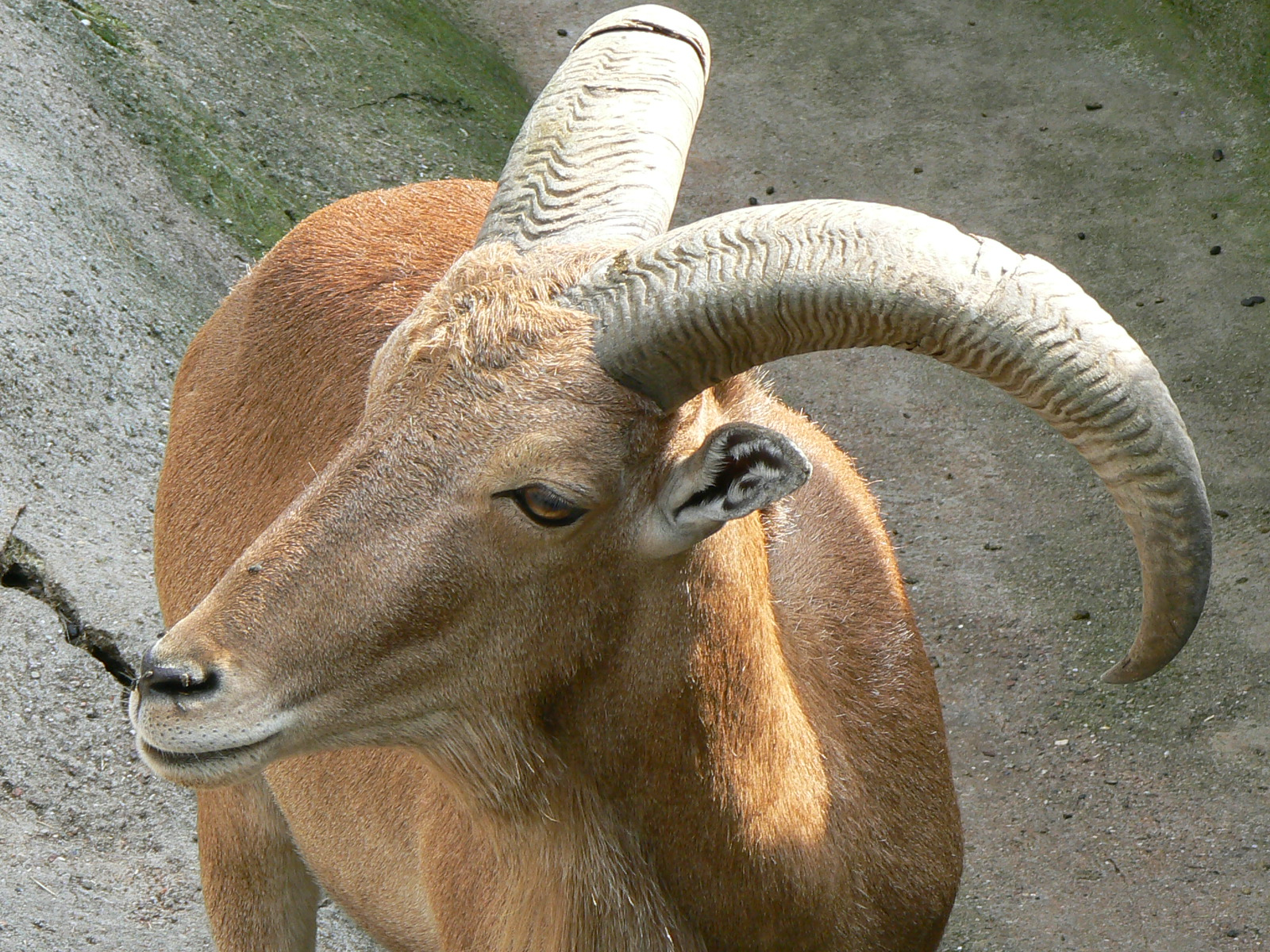 barbary sheep / Ammotragus lervia /Mähnenspringer